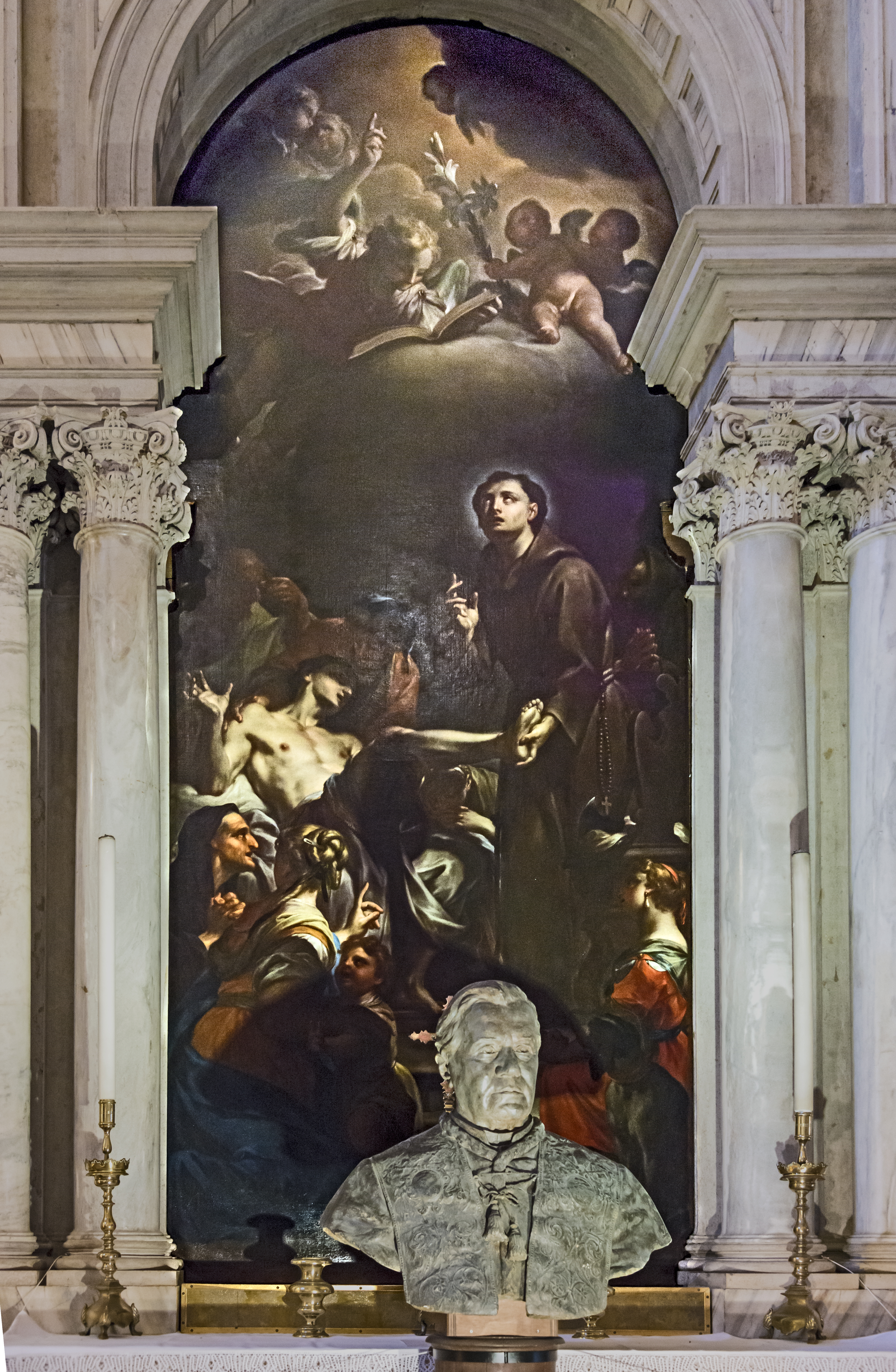 Church of San Rocco in Venice. The Miracle of St. Anthony of Francesco Trevisani (1733); oil on canvasmedium QS:P186,Q296955;P186,Q12321255,P518,Q861259; Height: 400 cm (13.1 ft); Width: 167 cm (65.7 in) dimensions QS:P2048,400U174728;P2049,167U174728.